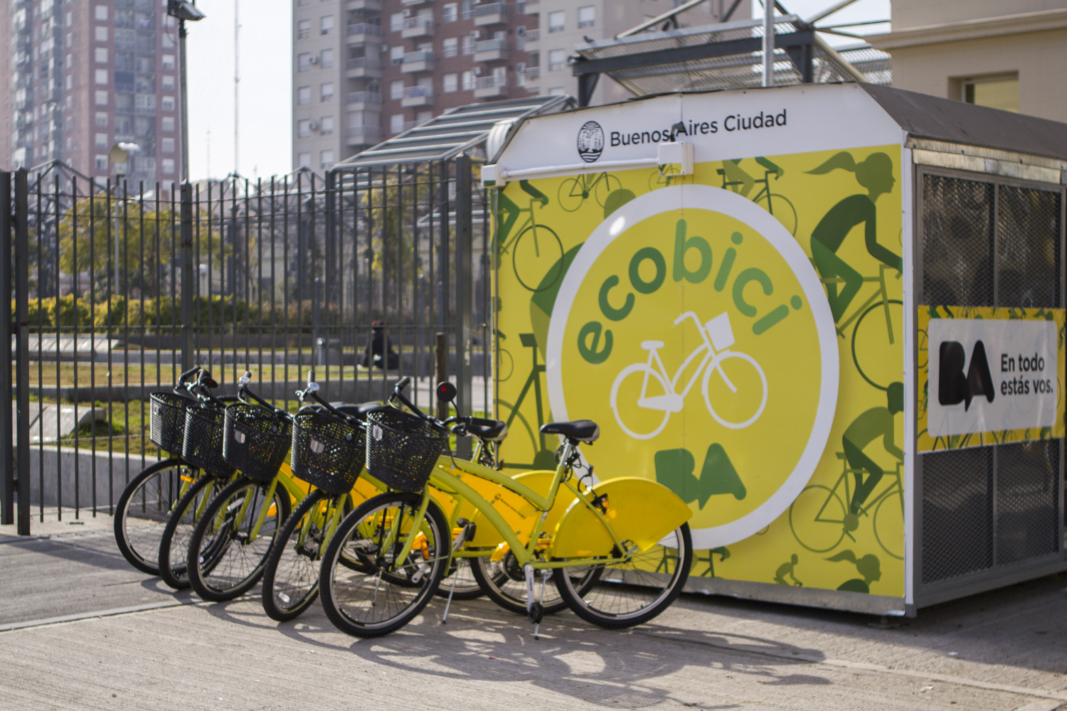 EcoBici bike sharing system in the city of Buenos Aires